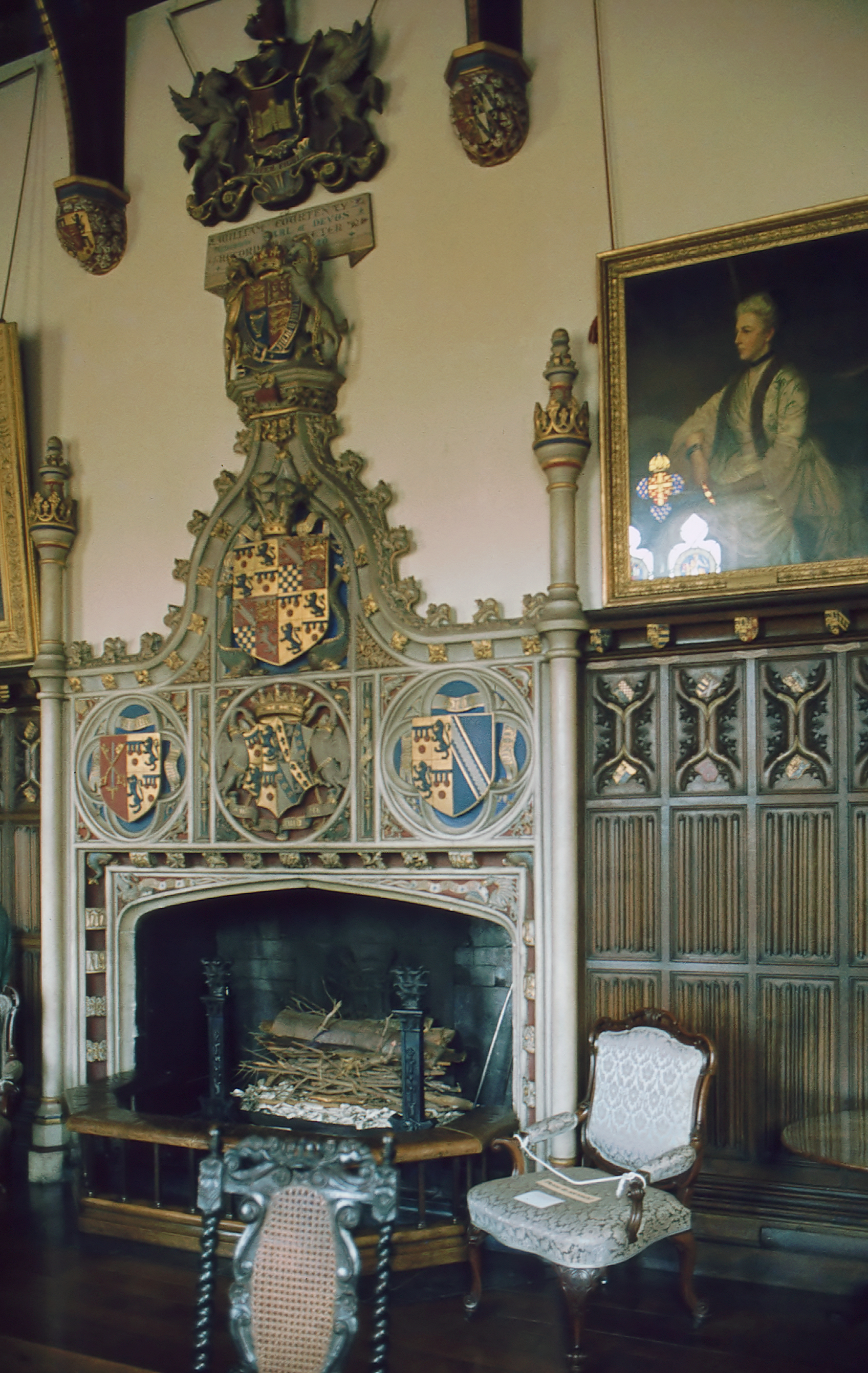 19th century heraldic fireplace in the Dining Hall, Powderham Castle, Devon, England. A copy of "Bishop Courtenay Mantelpiece", erected by Bishop Peter Courtenay (d.1492) in the Bishop's Palace, Exeter, Devon.